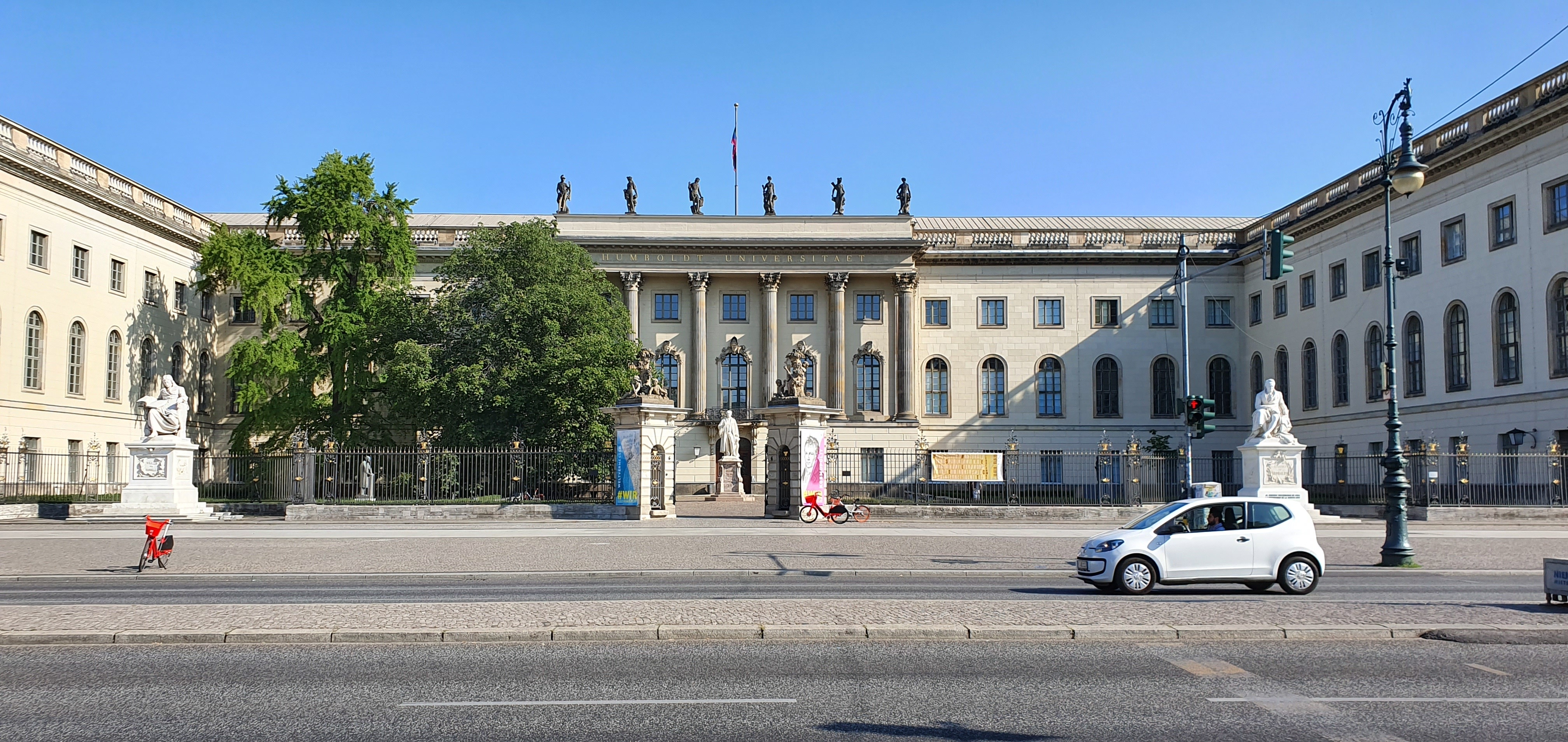 Humboldt-Universität Berlin - Main building